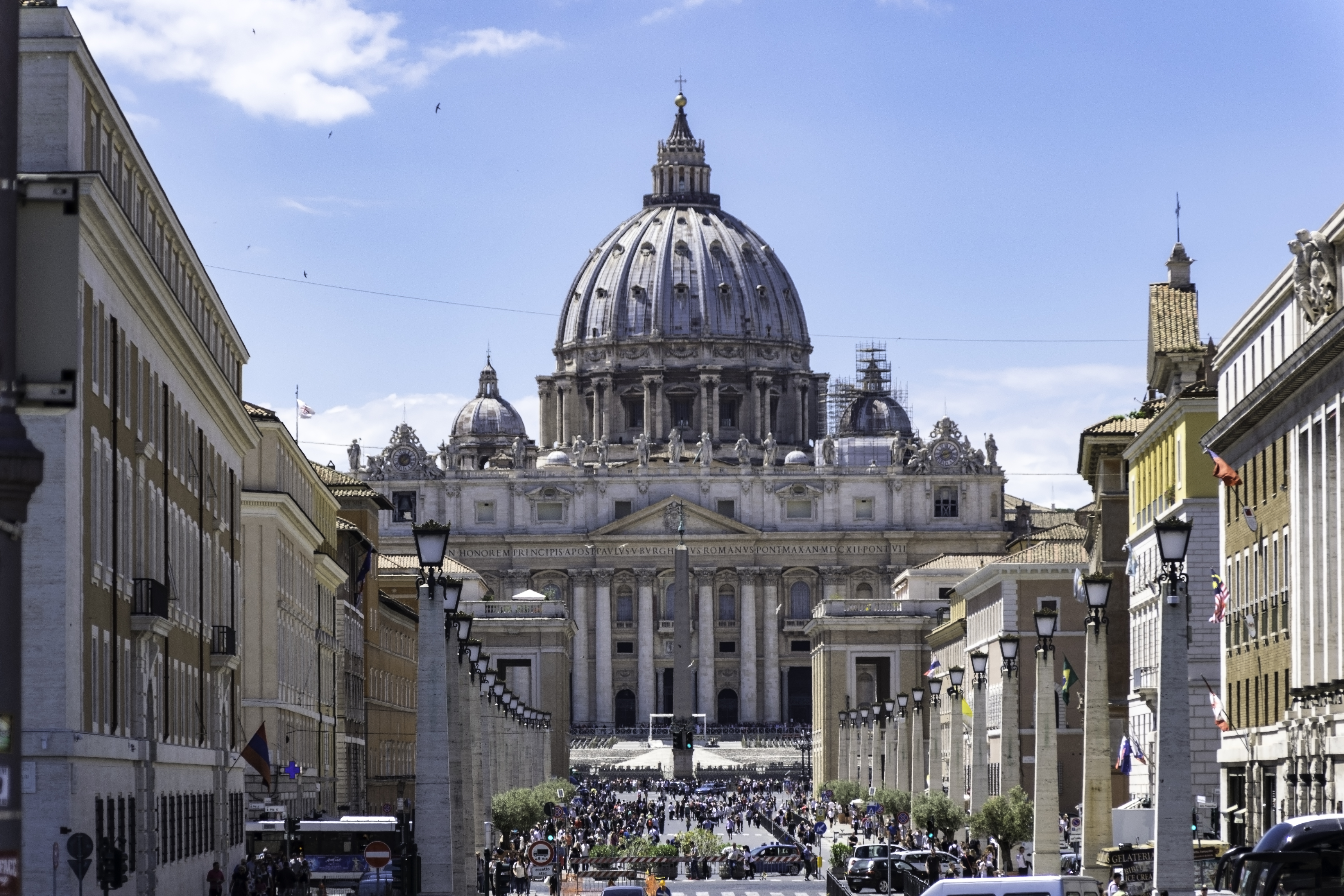 The Via della Conciliazione with view to the St. Peter's Square and St. Peter's Basilica